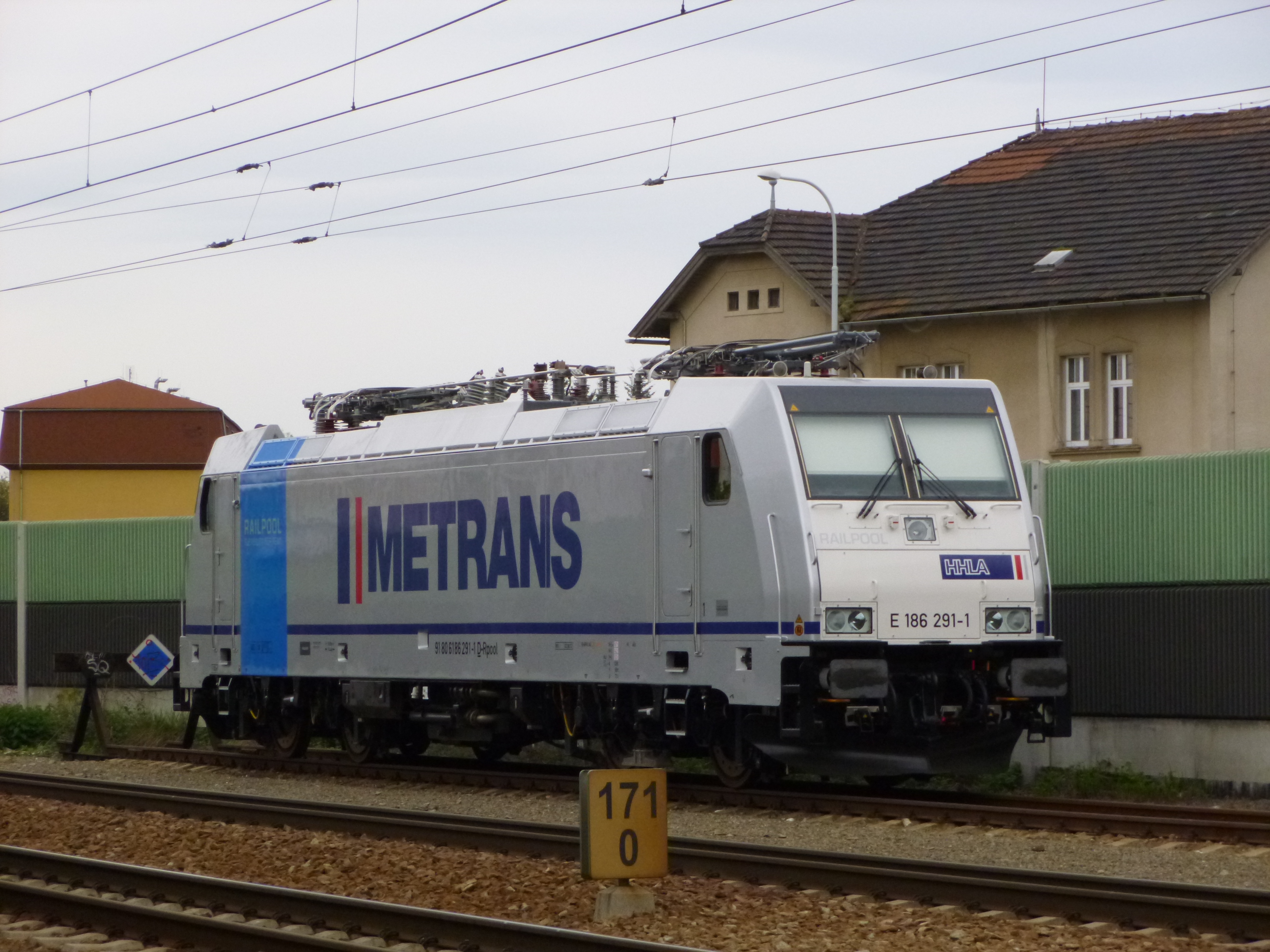 E 186 291-1 operated by METRANS Rail in Prague-Uhříněves